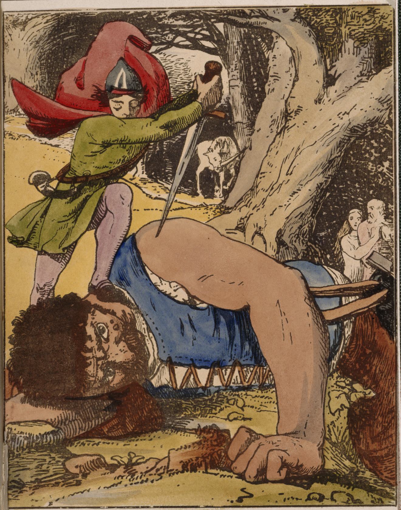 Jack killing the giant The giant being killed by Jack.